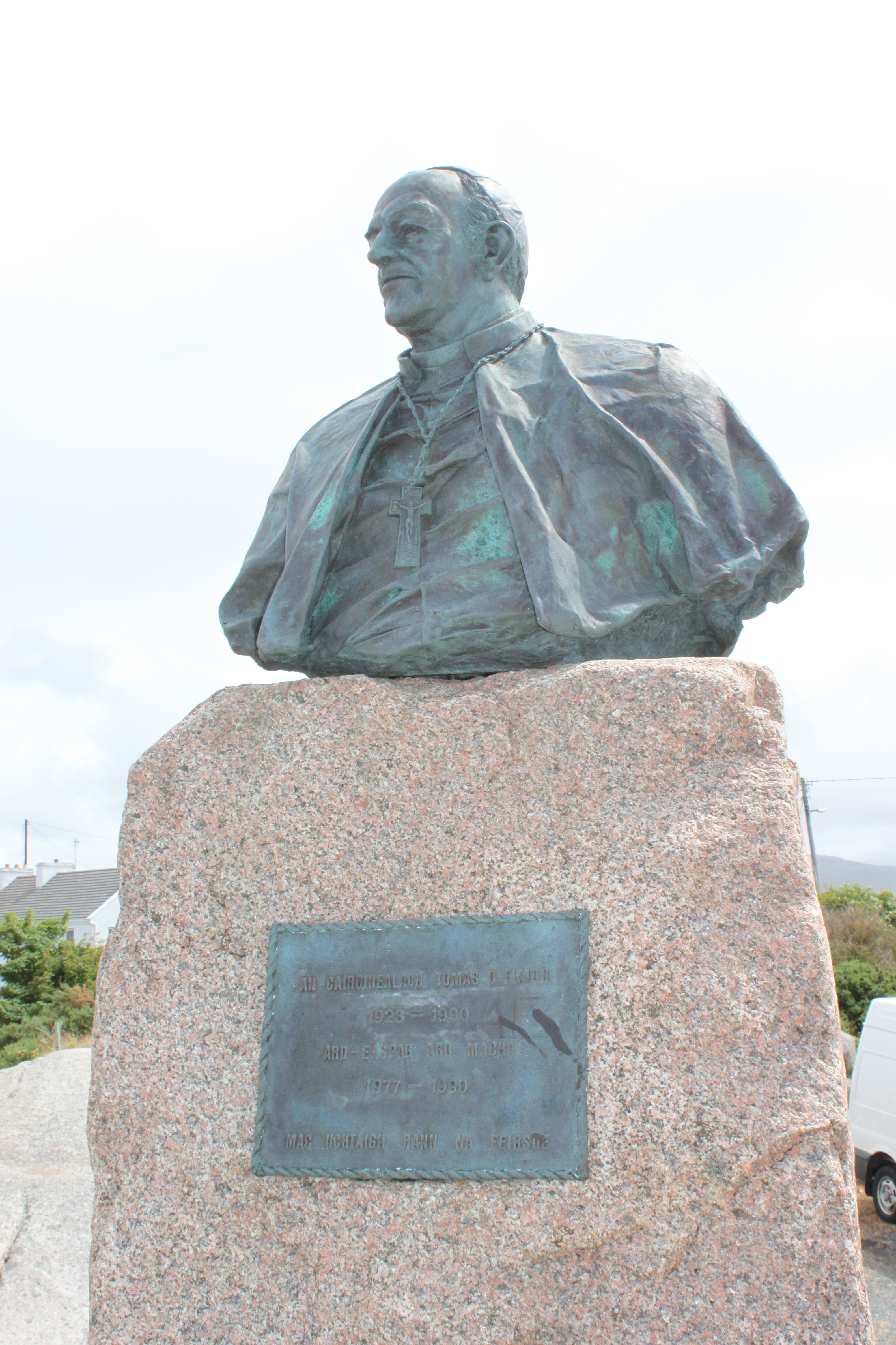 Tomás Ó Fiaich